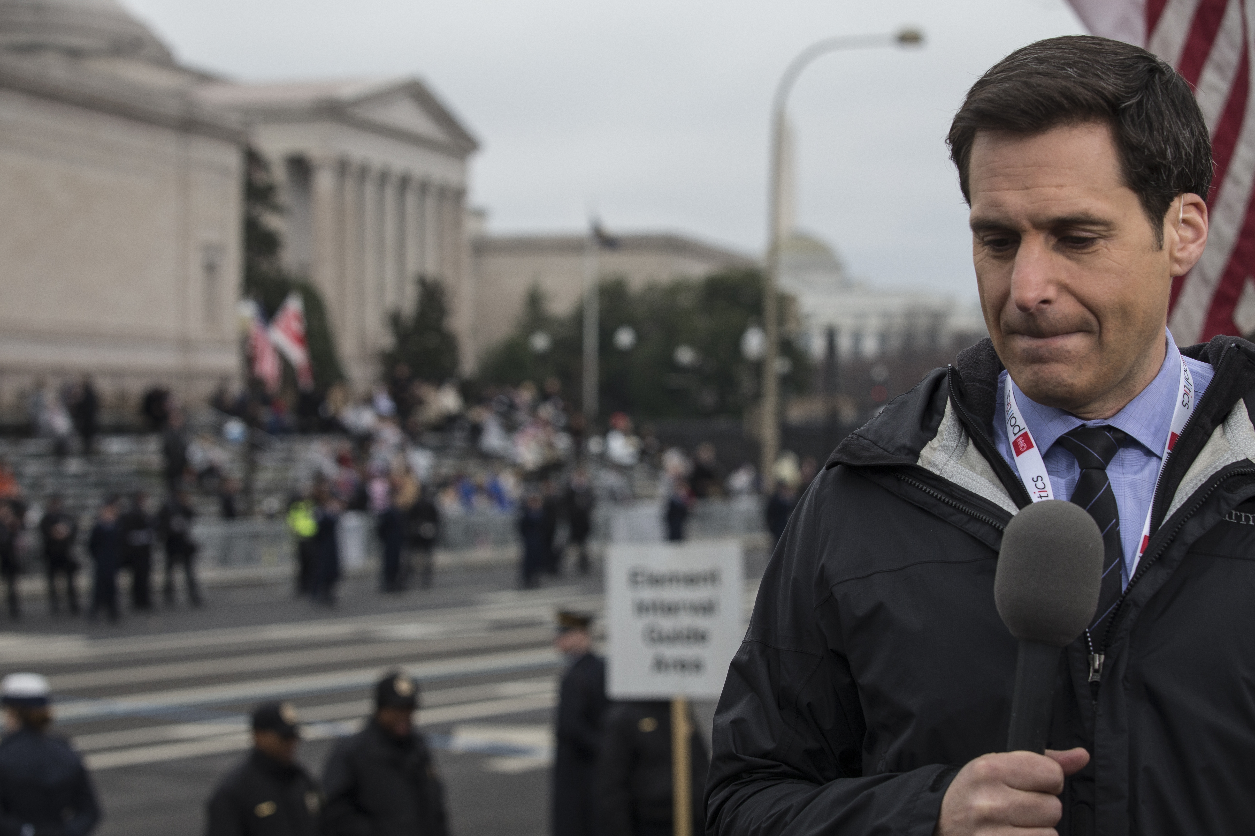 CNN reporter prepares for a live broadcast from alongside Pennsylvania Avenue during the Inaugural parade for Donald J. Trump as the 45th President of the United States, in Washington, D.C., Jan. 20, 2017. More than 5,000 military members from across all branches of the armed forces of the United States, including Reserve and National Guard components, provided ceremonial support and Defense Support of Civil Authorities during the inaugural period. (DoD photo by U.S. Marine Corps Sgt. John Raufmann)